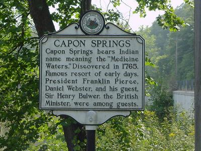 Capon Springs historical marker along WV 259 at Capon Lake Bridge.